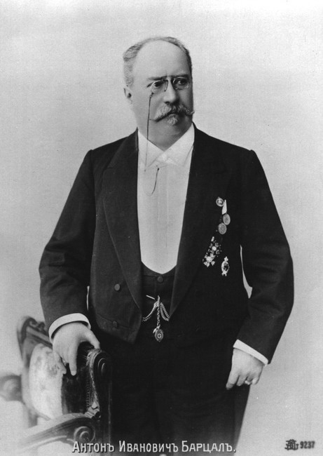 Postcard of Russian-Czech opera singer Anton Bartsal (1847-1927)